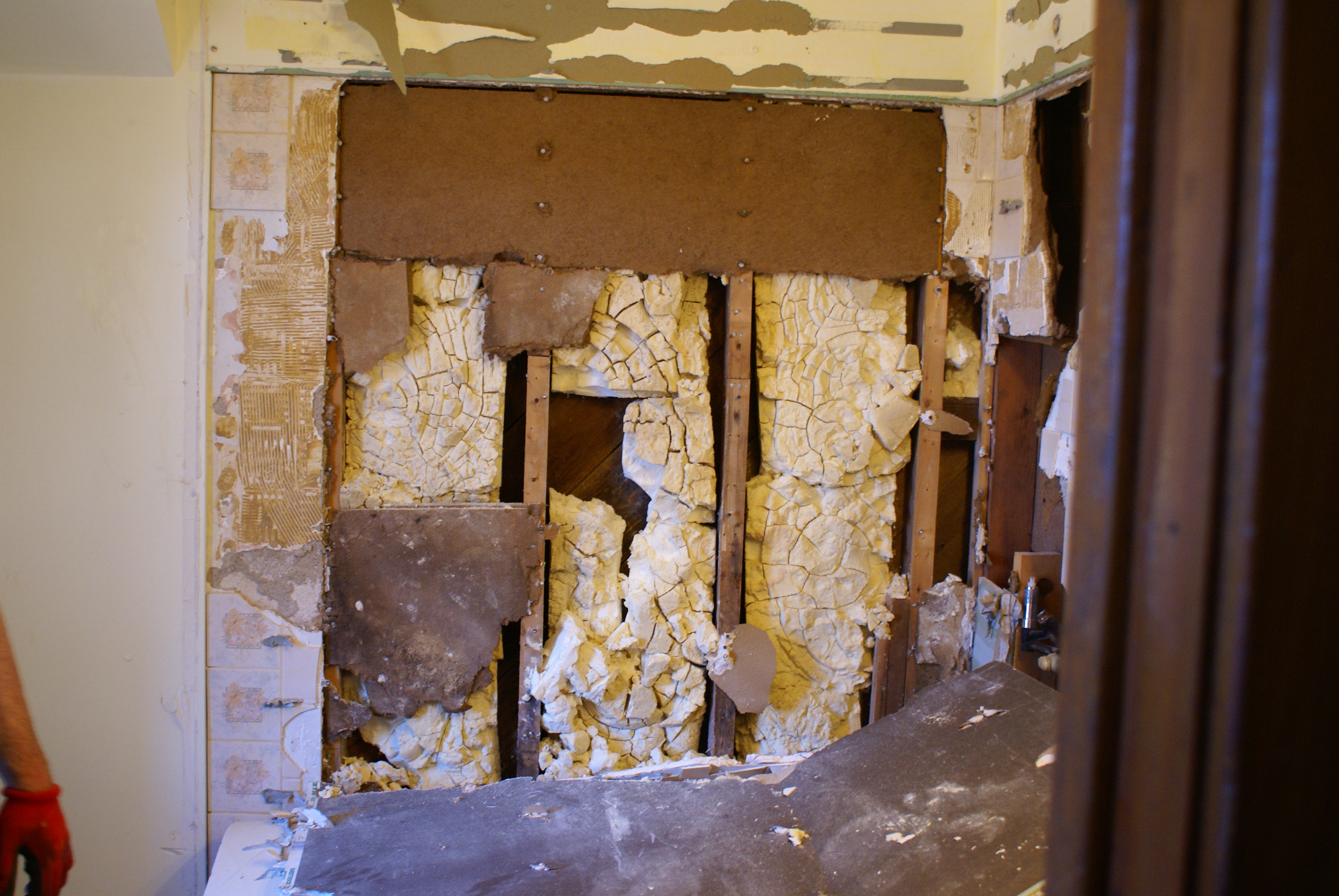 Urea-formaldehyde insulation exposed during bathroom renovation, Feb 13, 2012